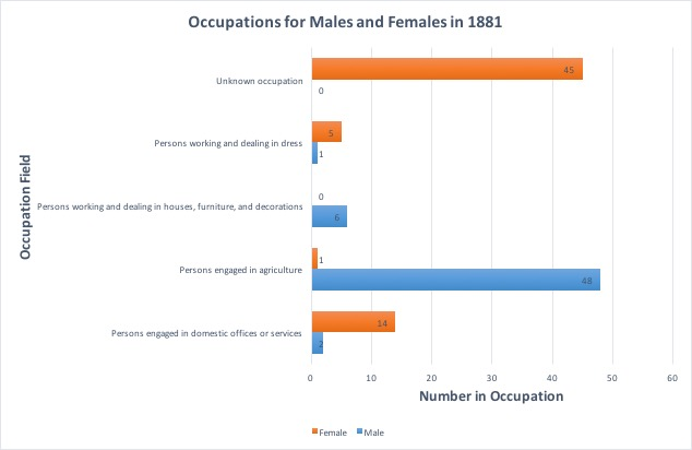 A graph to show the occupations of males and females of Beighton in 1881